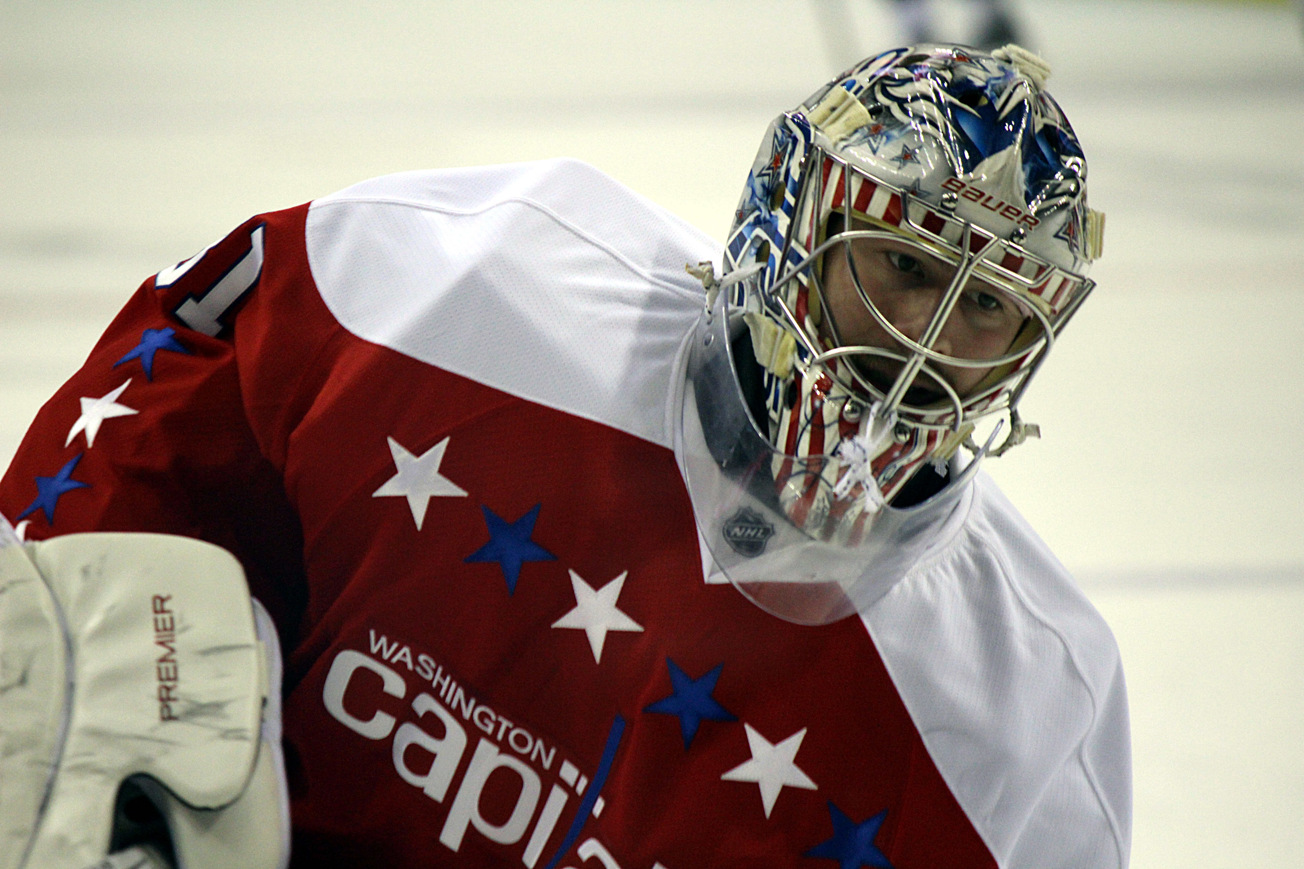 Washington Capitals goaltender Philipp Brubauer during a game against the Pittsburgh Penguins, Thursday, April 7, 2016 at Verizon Center in Washington, D.C.